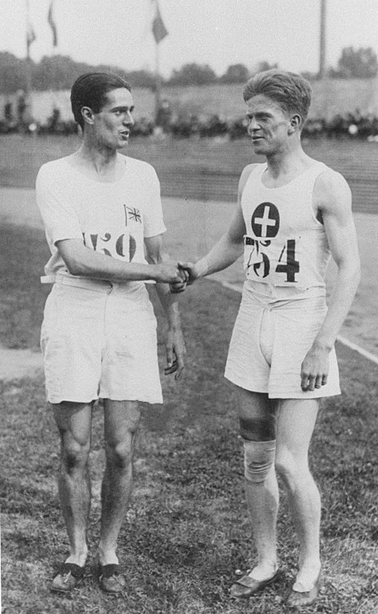 Douglas Lowe (left) of Great Britain shakes hands with Paul Martin (right) of Switzerland after the 800 metres event at the 1924 Olympic Games in Paris. Lowe won the gold medal and Martin the silver medal